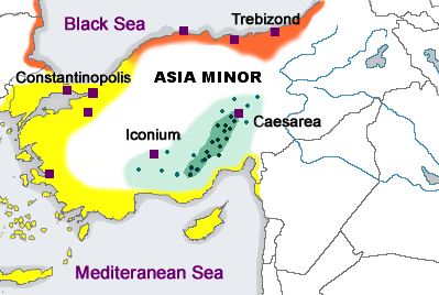 Greek dialects of Asia Minor prior to 1923 Population exchange between Greece and Turkey.[1]